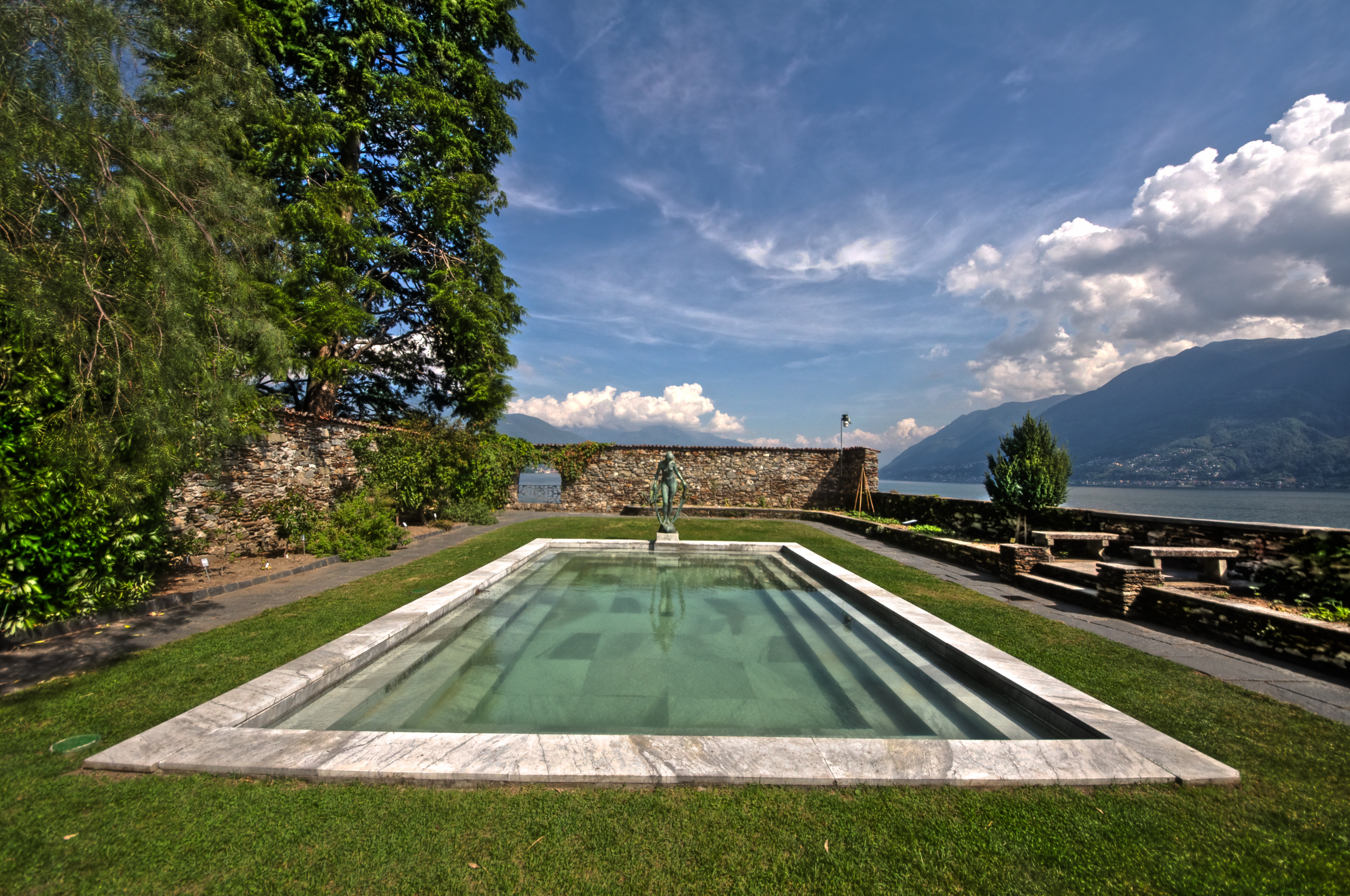 Pool on the Isole di Brissago near Brissago, Ticino, Switzerland